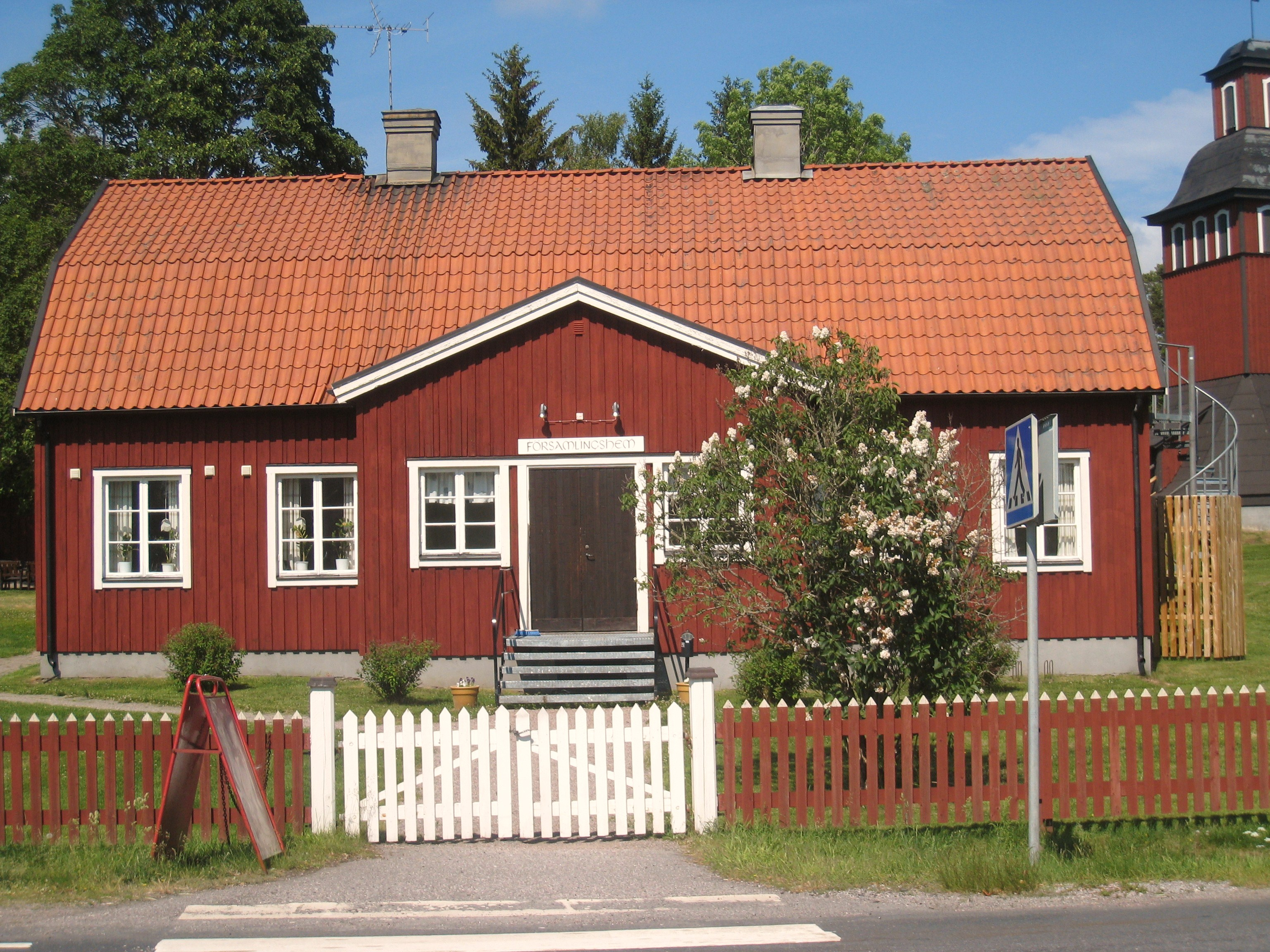 Knutby parish house, Sweden